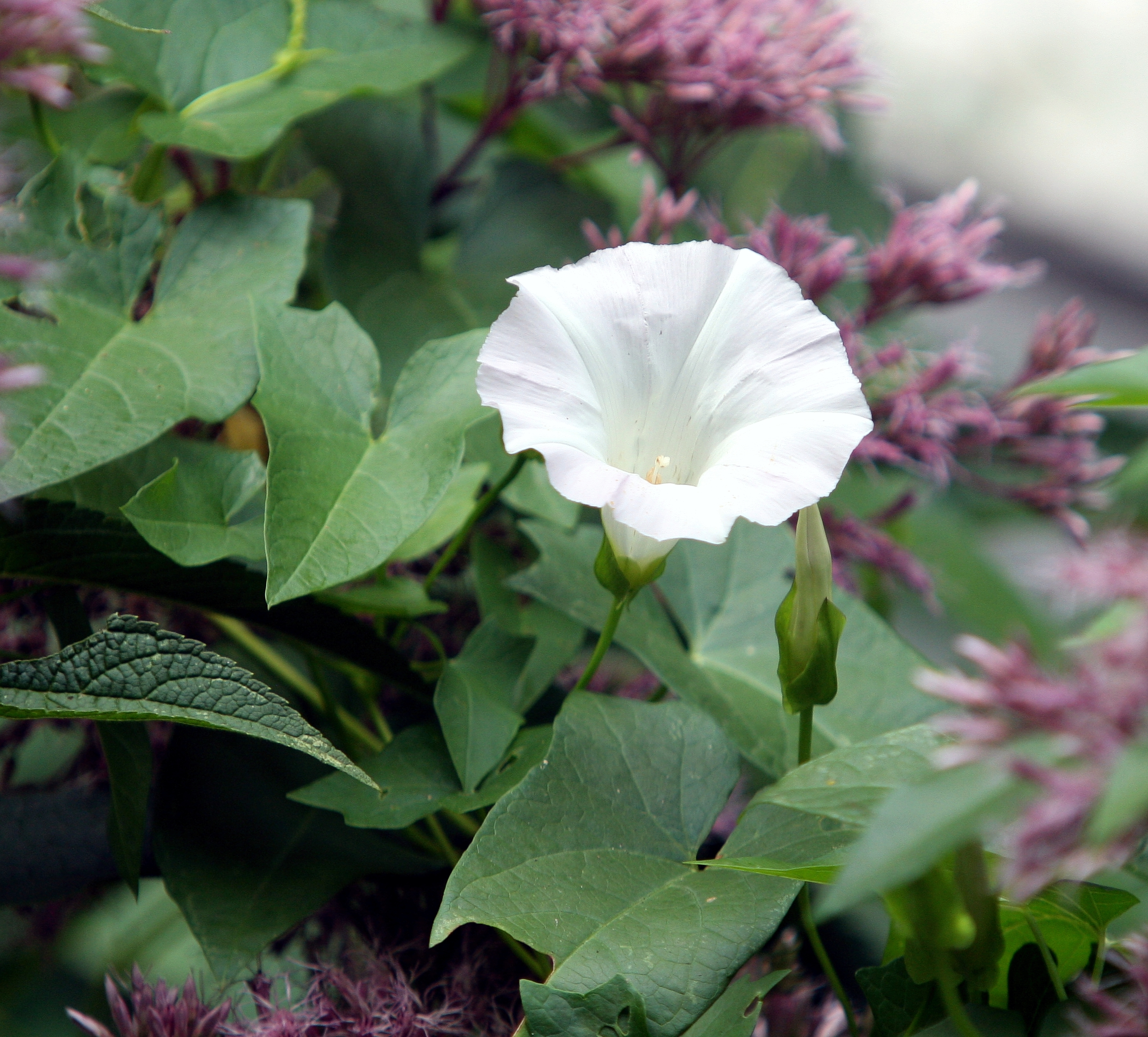 Calystegia sepium showing a flower and some of the foliage.